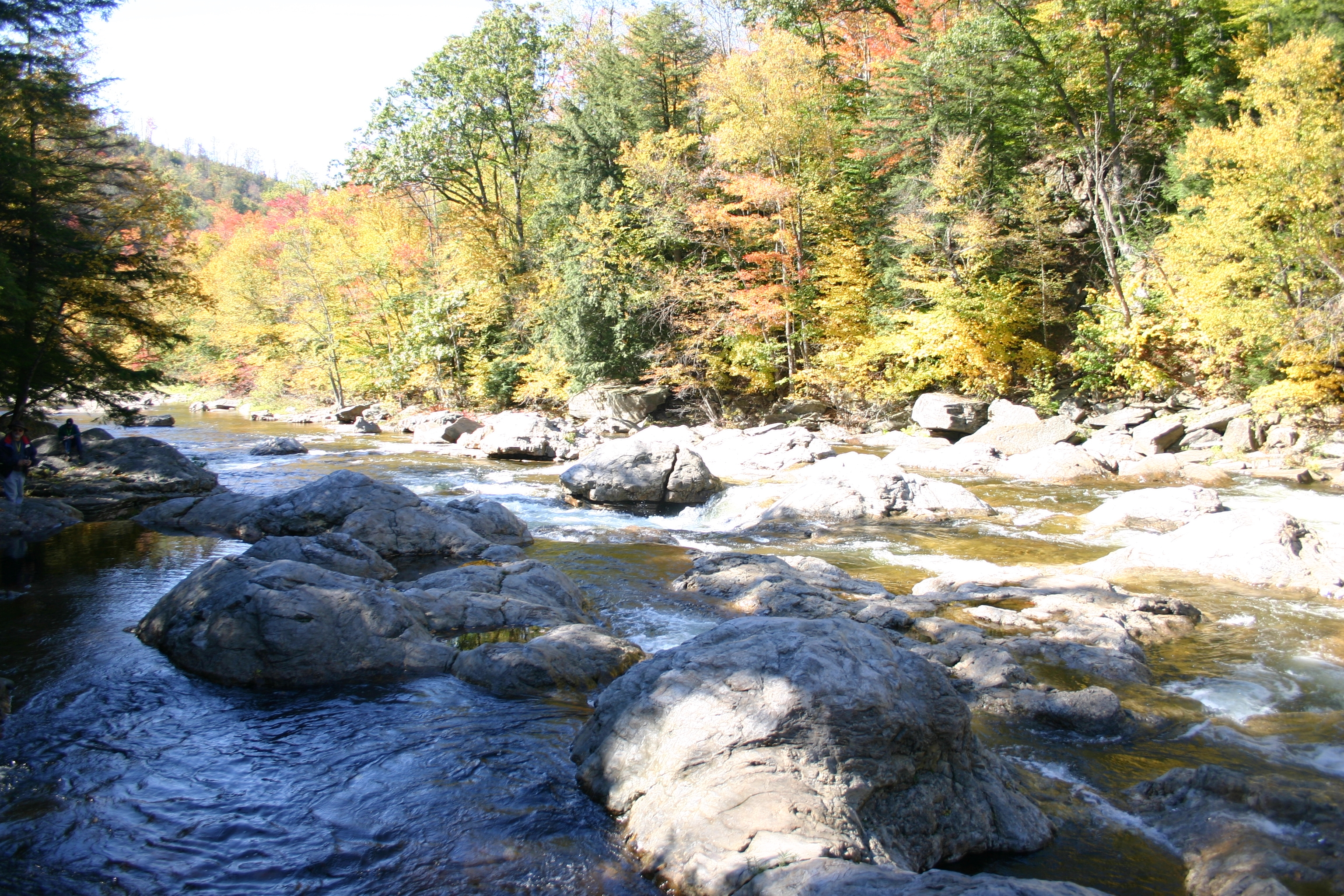 The type locality of the Haystacks bed of the Mississippian-Devonian Upper Huntley Mountain Formation in Loyalsock Creek, Sullivan County, Pennsylvania